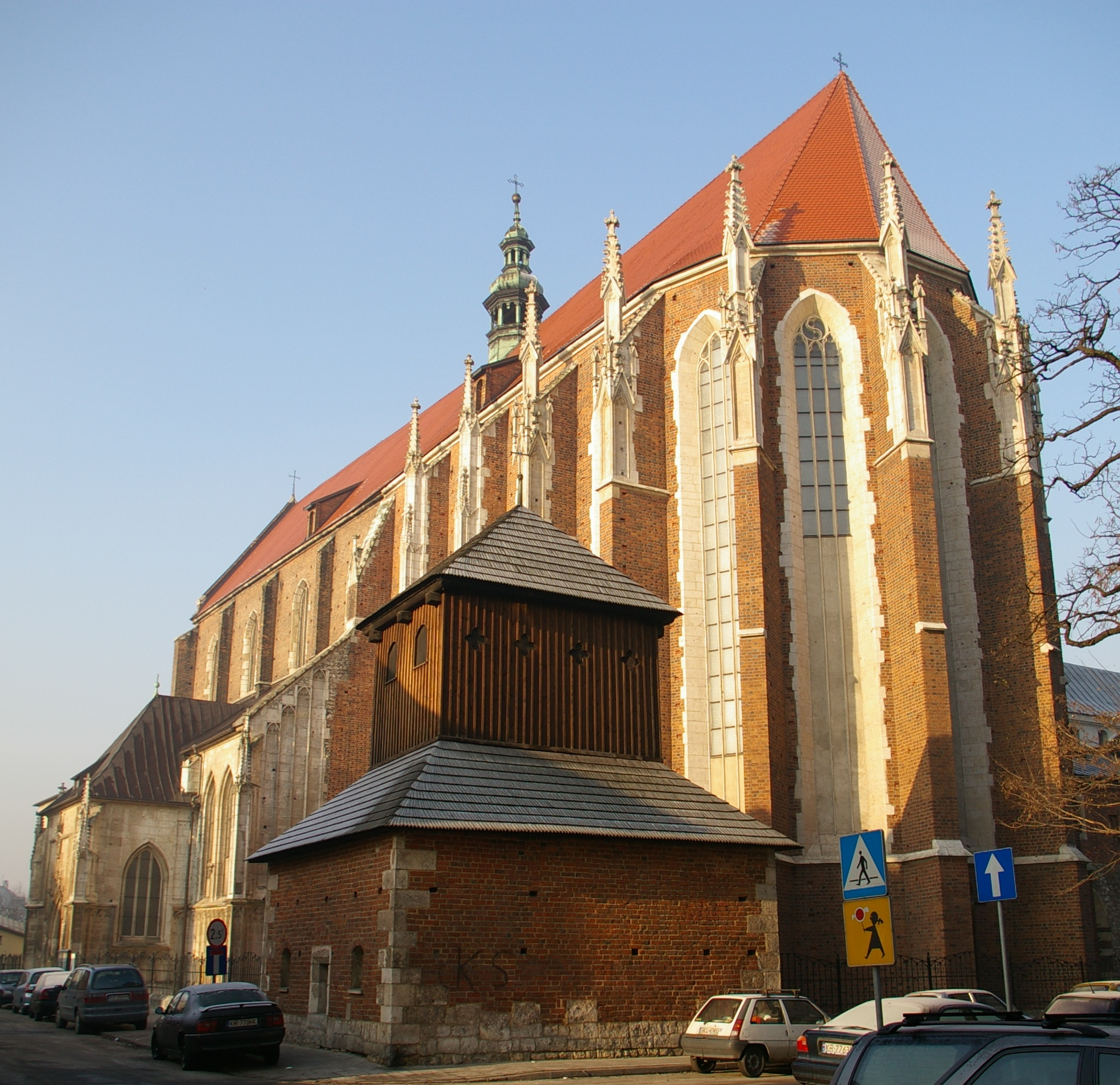 Church of St. Catherine in Kraków